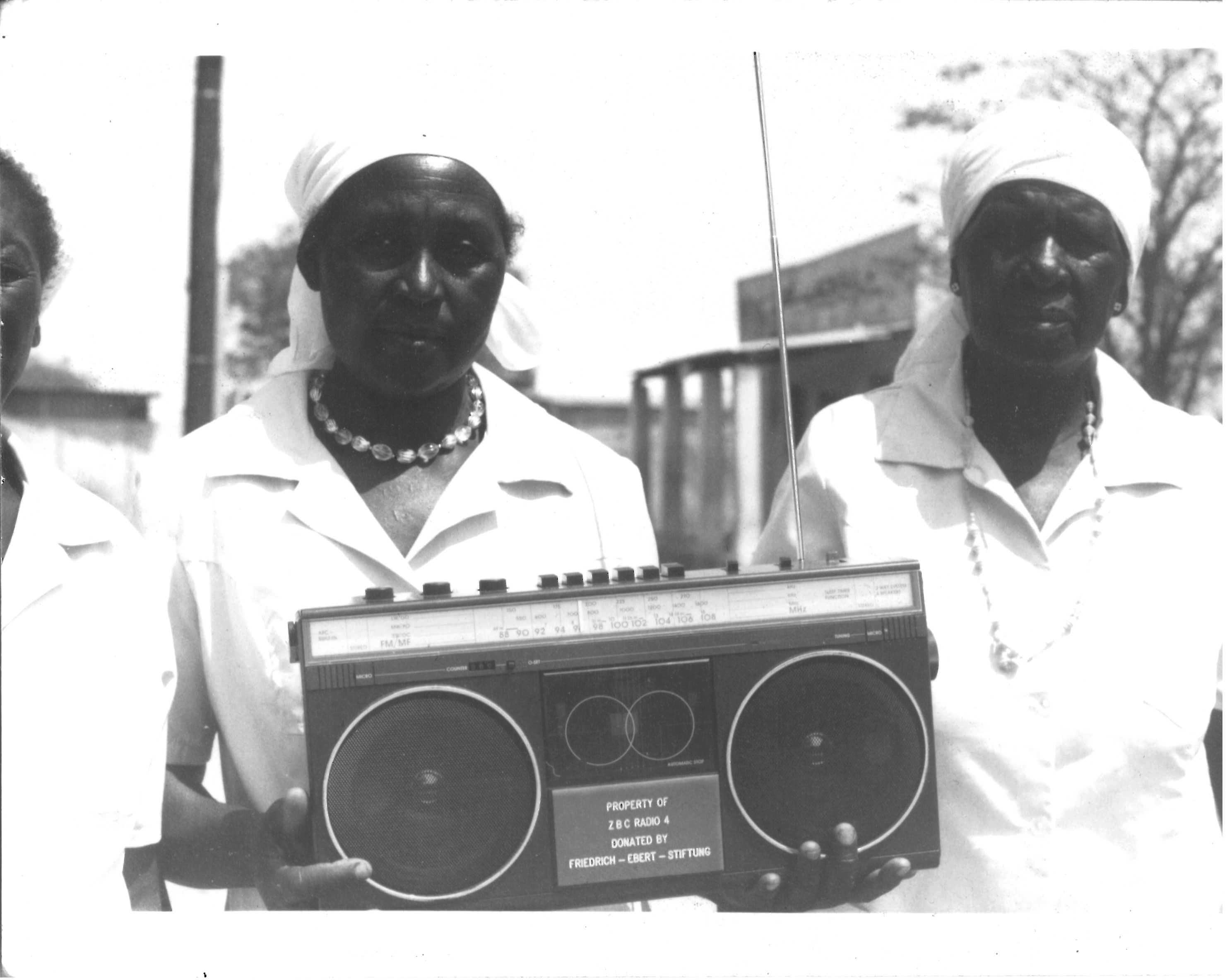 “DTR Clubs - Seke receive free radios from FES [Friedrich Ebert Stiftung] – Germany org.”]; in Mavis Moyo’s handwriting on reverse